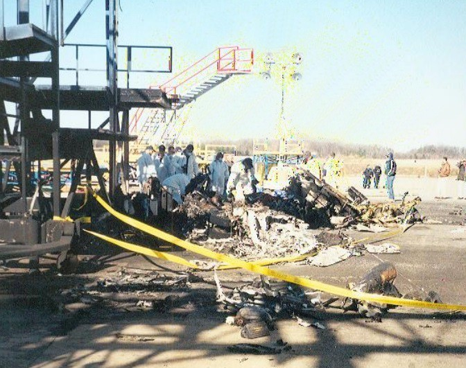 Air Midwest flight 5481, a Beechcraft 1900D, crashed shortly after takeoff from runway 18R at Charlotte-Douglas International Airport (CLT, North Carolina, USA. The 21 occupants aboard the airplane were killed.